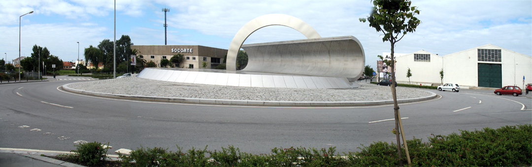 Exponor Roundabout at Leça da Palmeira, Portugal